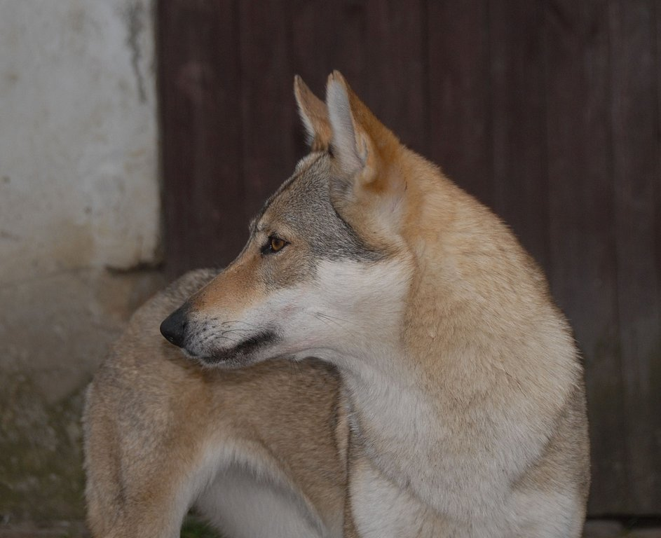 Head of typical female